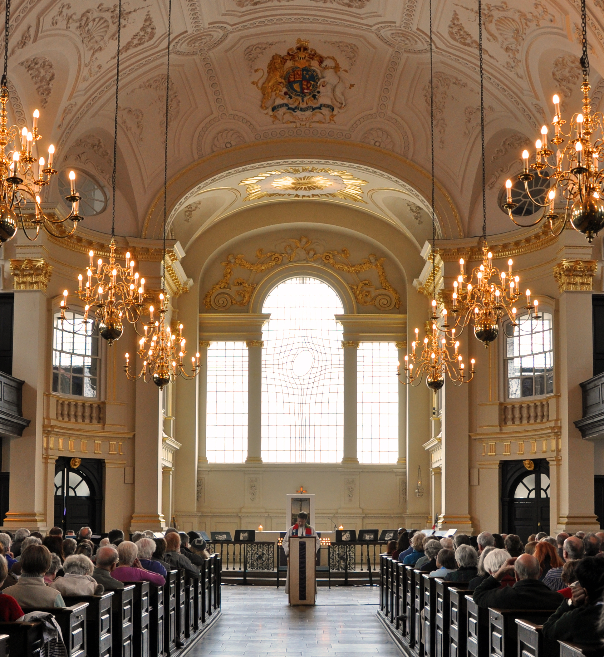 Prayer led by Rev. Richard Carter of St. Martin-in-the-Fields Church ©